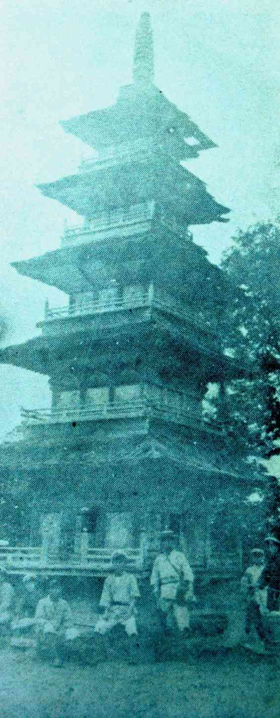 Five-story pagoda at Ōbutsu-ji, Aomori Prefecture, Japan. Built in 1744–1745, burned down in 1912.